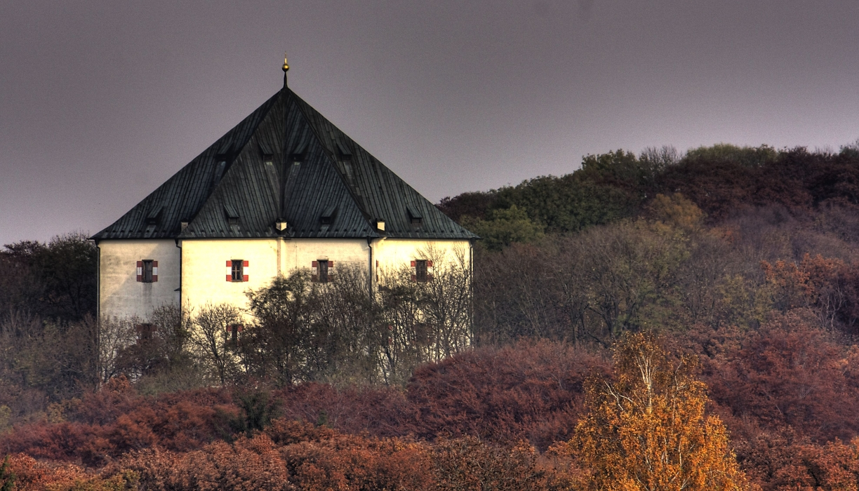 Villa in Prague (Czech Republic). HDR photography